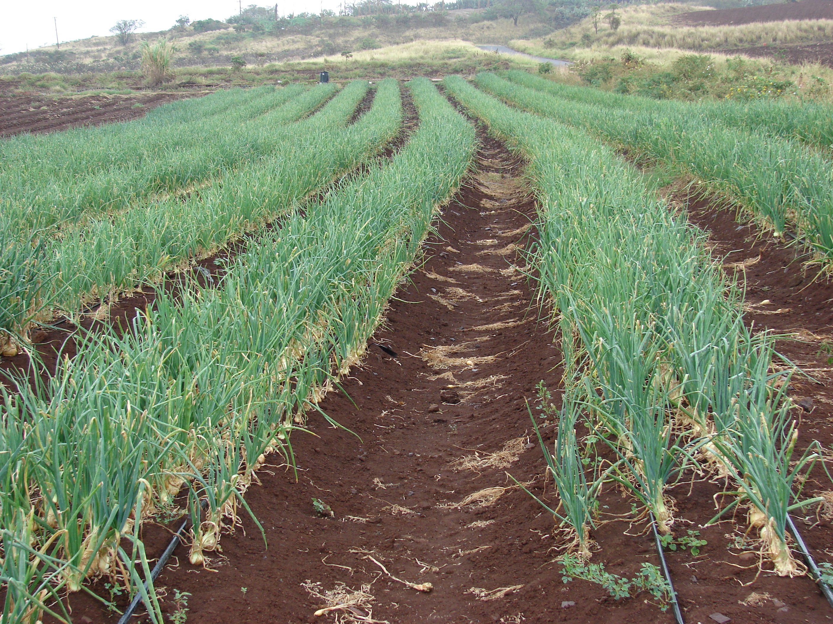 Allium cepa (crop). Location: Maui, Kula Ag Park Pulehu